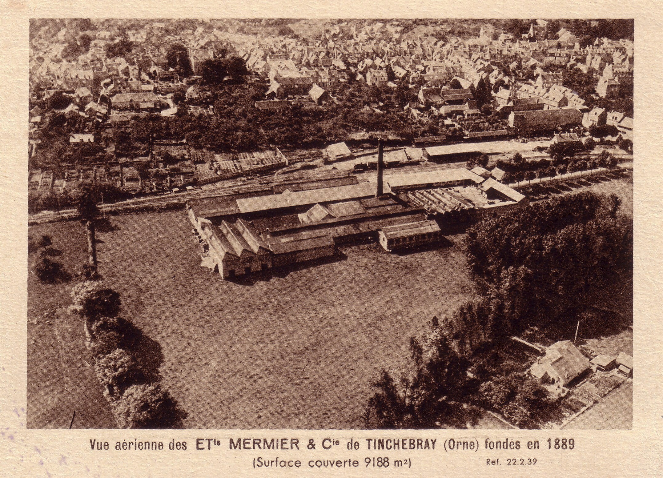 Tinchebray-Bocage, Orne, Usine Mermier (Carte postale ancienne retouchée)